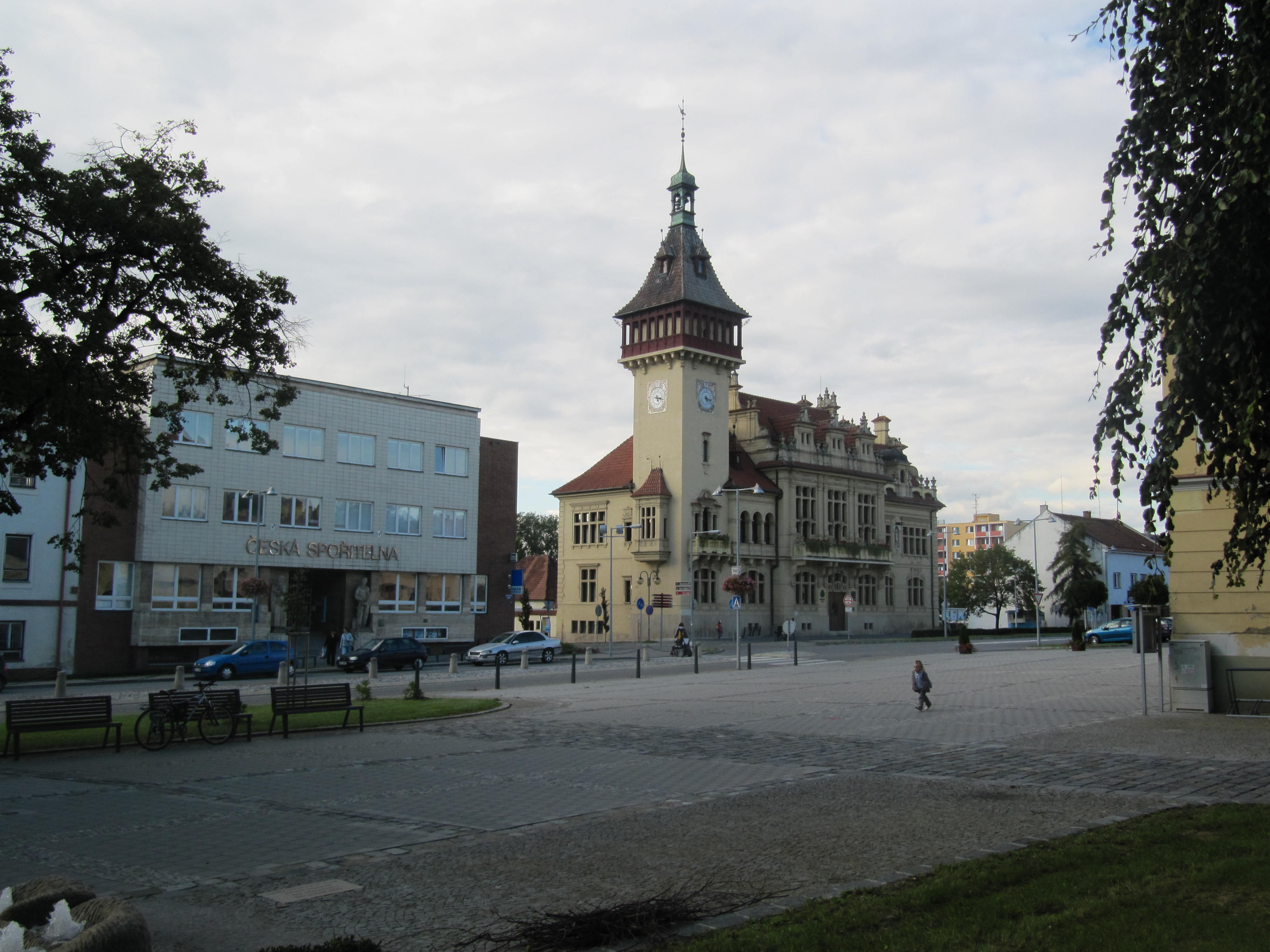 Napajedla in Zlín District, Czech Republic.Bank and town hall.